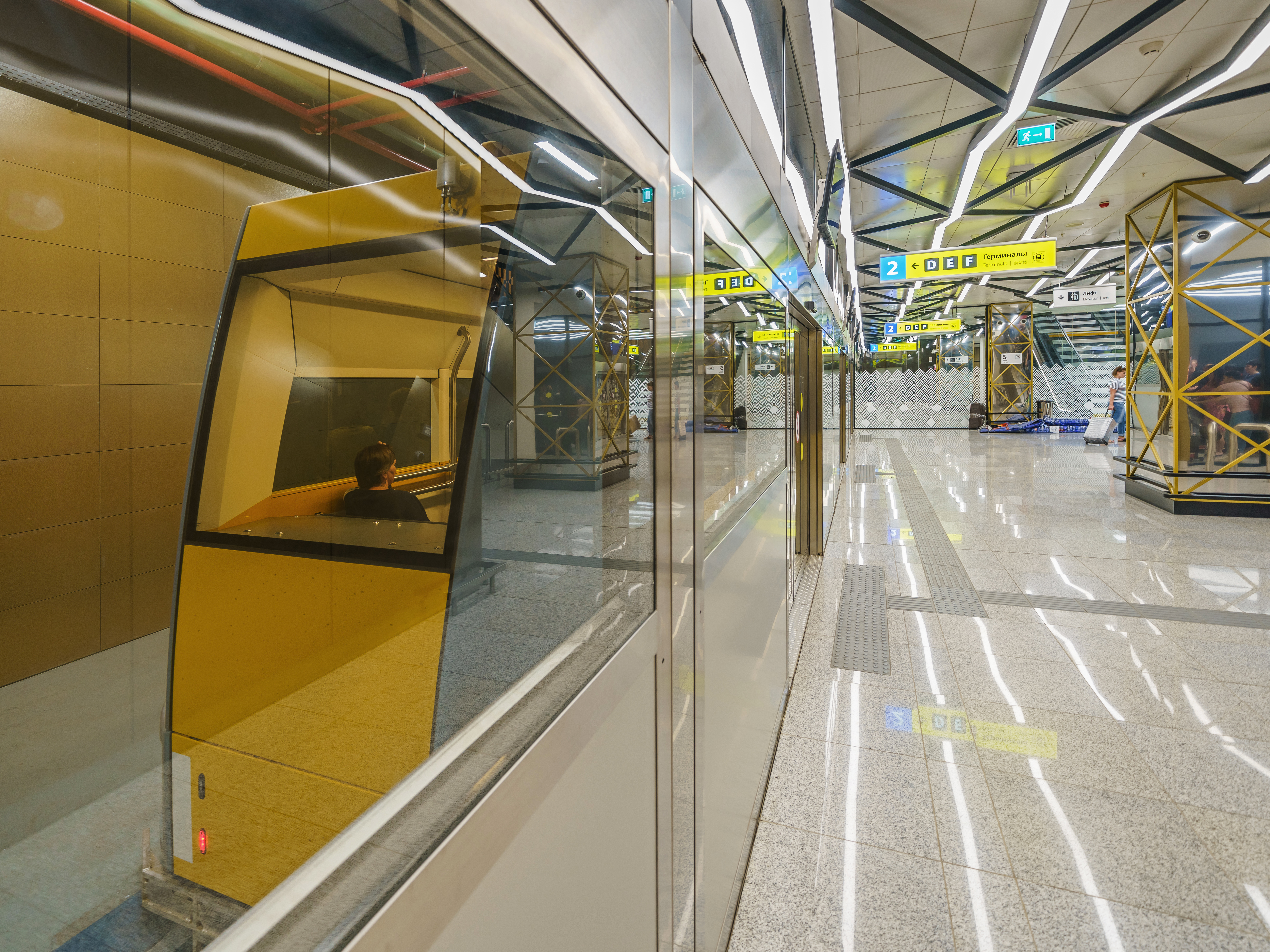 Sheremetyevo-1 station of the cross-terminal underground peoplemover at Sheremetyevo Int. Airport, Moscow Oblast, Russia.